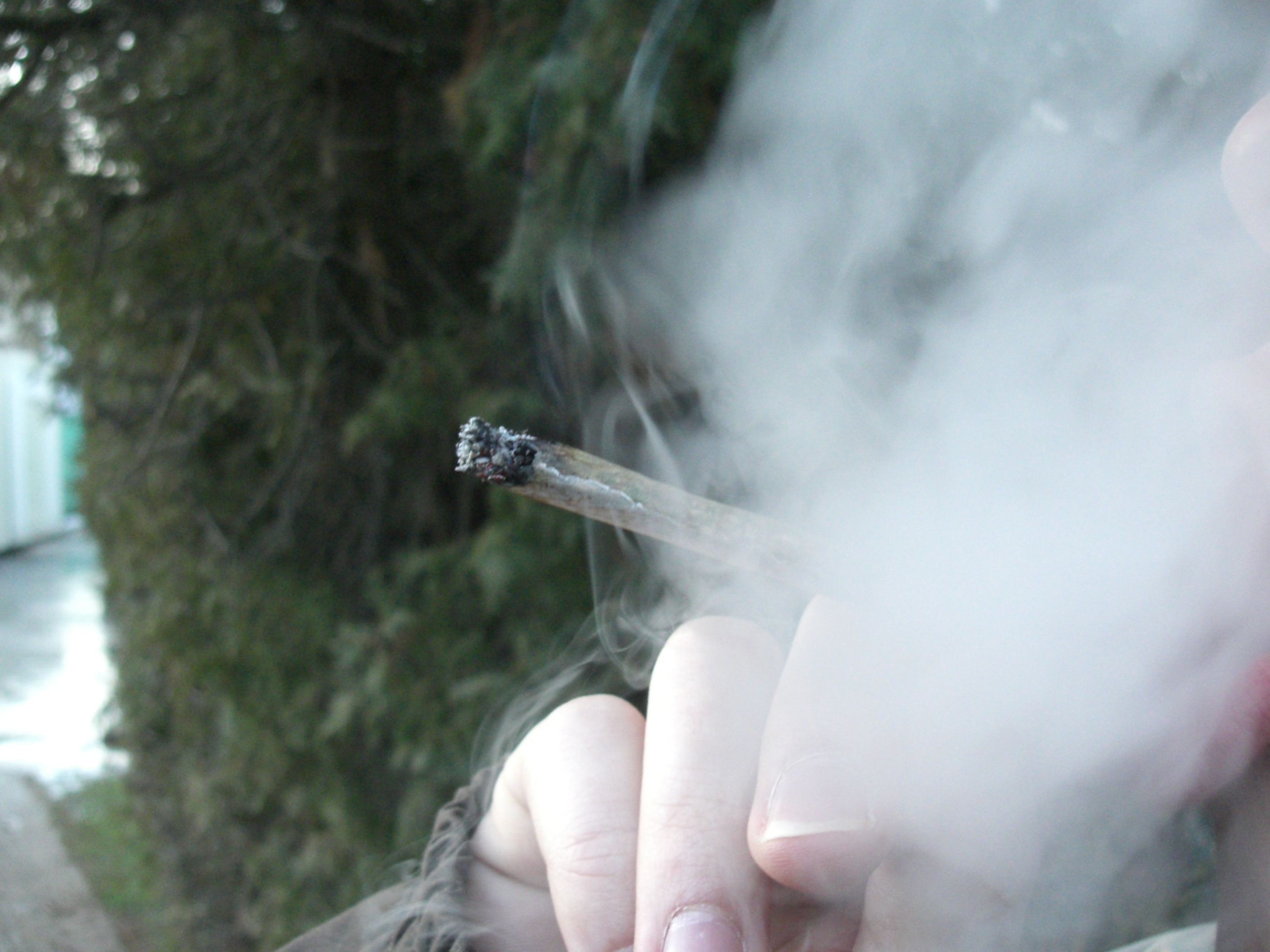 Burning joint with smoke, Czech Republic